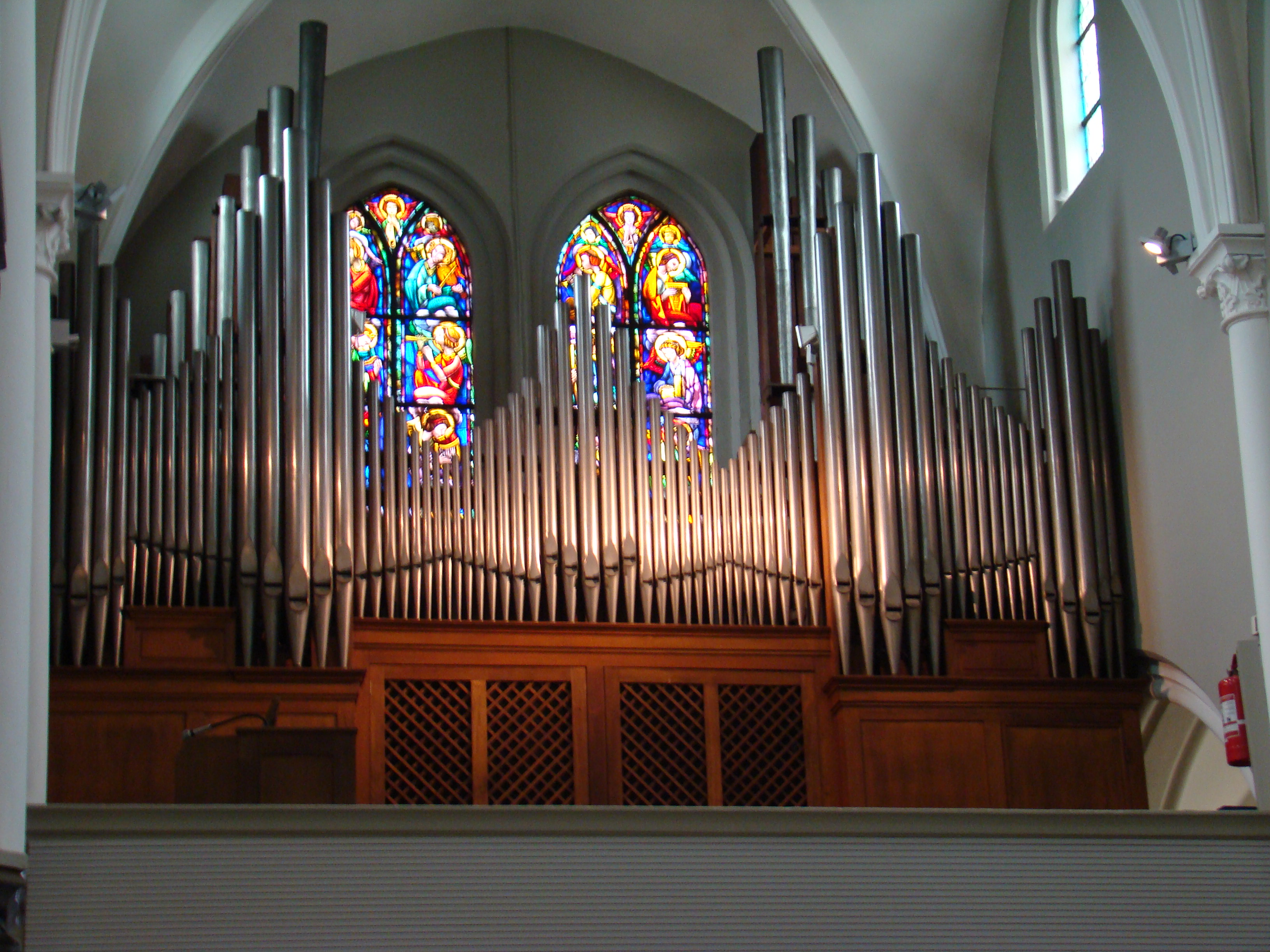 Sint-Michiels church Kuurne (West Flanders, Belgium)